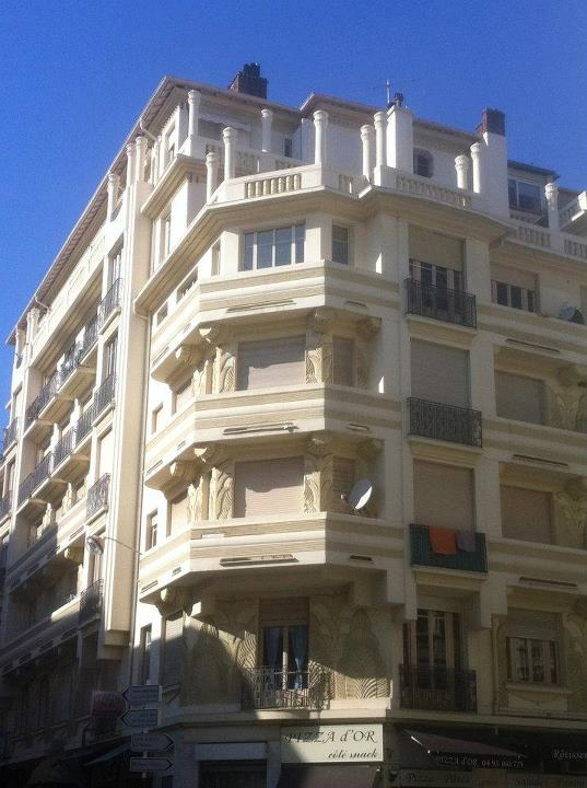 Building at 34 avenue George Clemenceau in Nice, France